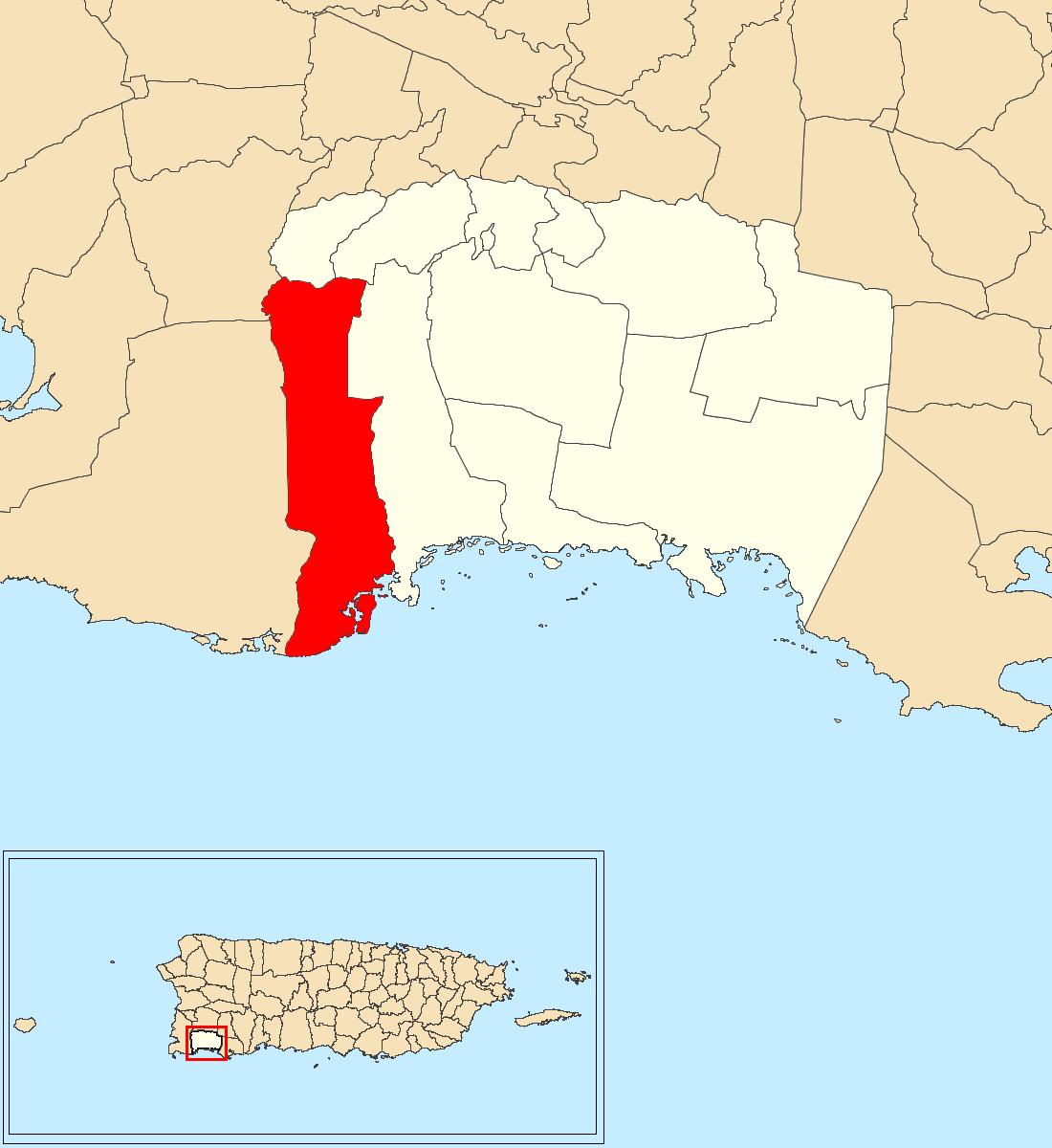 Llanos, Lajas, Puerto Rico locator map